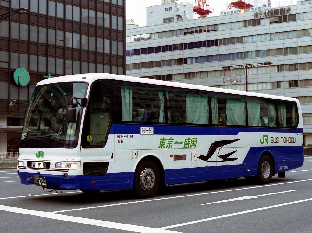 JR bus Tohoku Mitsubishi Fuso Aero Bus(KL-MS86MP)Highwaybus "Rakuchin"(Morioka-Tokyo)